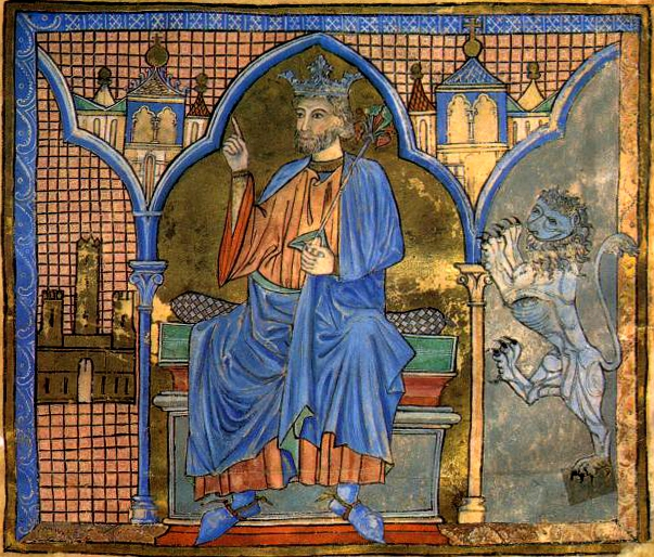 Ferdinand III of Castile. Tumbo A or Índice de los Privilegios reales. Santiago de Compostela